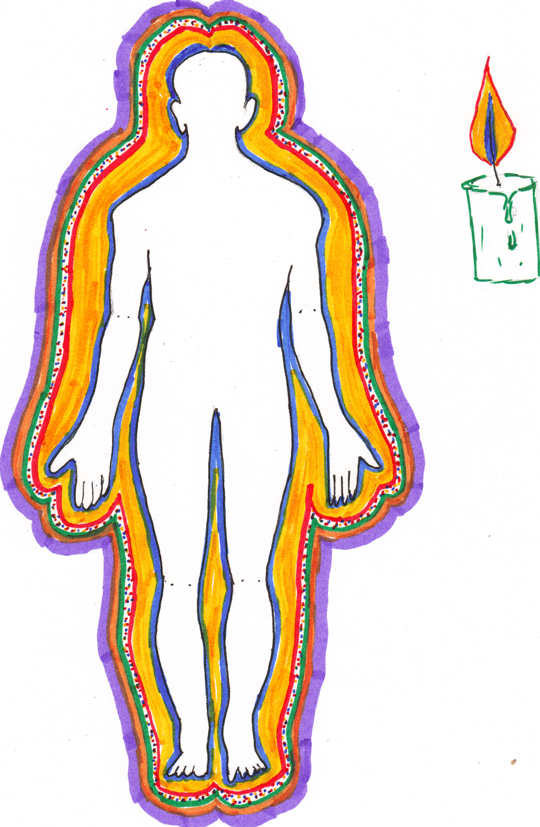 Subtle bodies of the human being